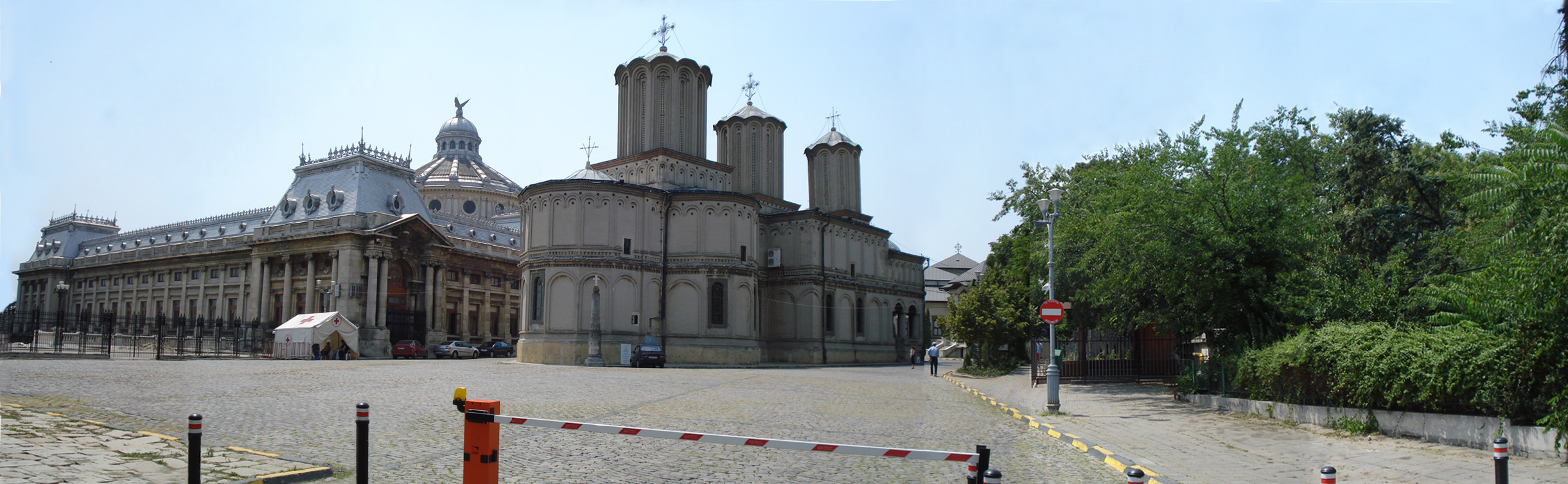 Uploaded to ro.wiki by Pixi